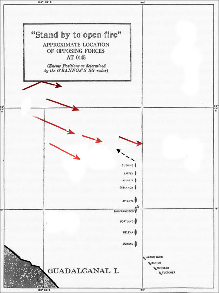 Map of the naval engagement of November 13, 1942, at 01:45 just before several U.S. warships began to turn left (indicated by dotted black arrow) in preparation to engage the Japanese ships and the U.S. column began to jumble. The Japanese warship groups are represented by red arrows (from top to bottom): Samidare, Murasame, and Asagumo (top arrow) Teruzuki, Amatsukaze, and Yukikaze (second from top arrow) Kirishima and Hiei (center-left arrow) Nagara (center arrow) Harusame and Yudachi (center-right arrow) Ikazuchi, Akatsuki, and Inazuma (bottom arrow) The ships of both sides began to fire at 01:48. Background taken from [1] (which is a U.S. government public domain document) and modified by myself, cla68, on June 21, 2006 to include warship forces battle tracks. Released under the GFDL